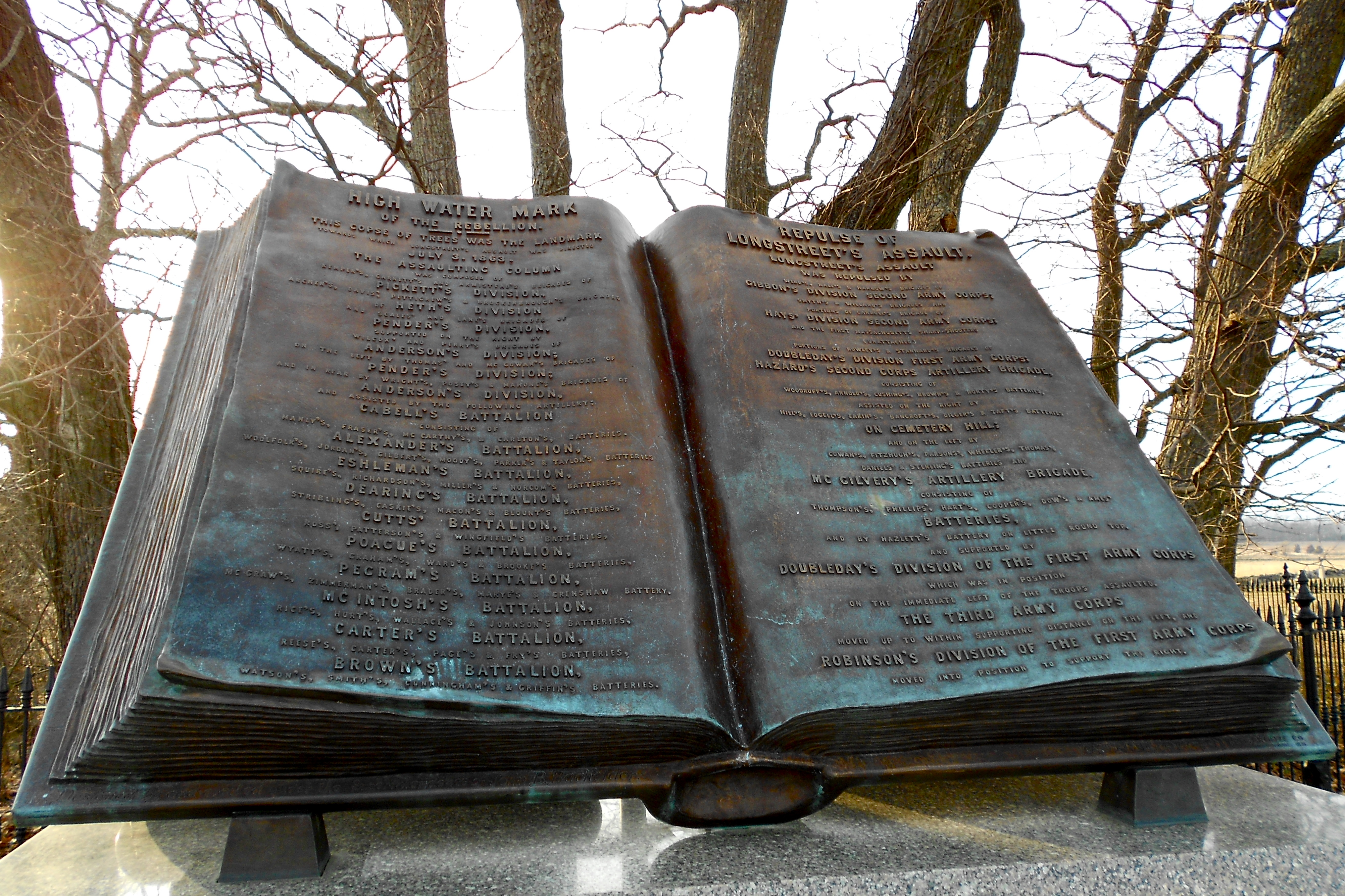 Monument on the Gettysburg (PA) battlefield showing the book of commanders and units at the high water mark of the rebellion